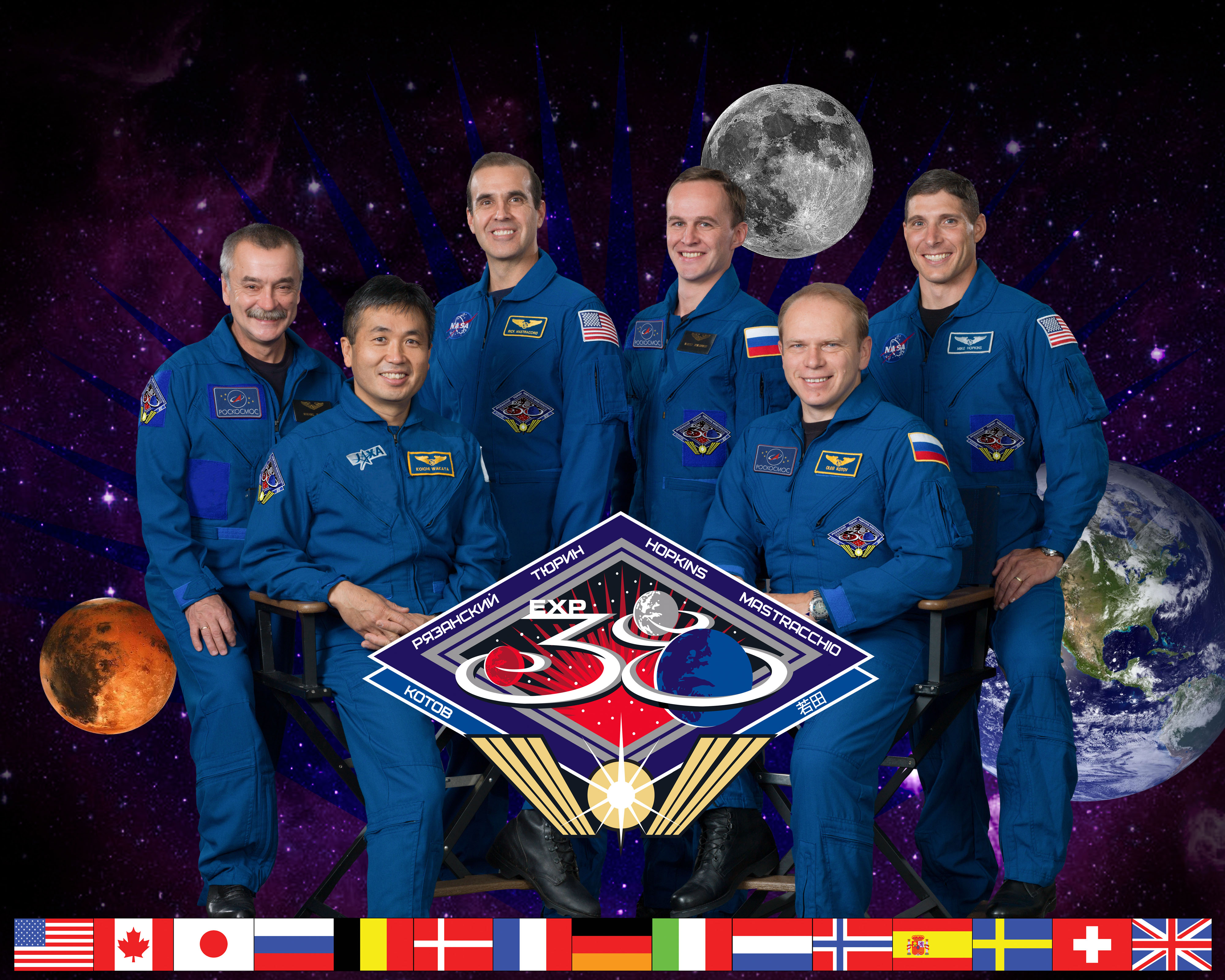 Expedition 38 crew members take a break from training at NASA's Johnson Space Center to pose for a crew portrait. Pictured on the front row are Koichi Wakata (left), flight engineer; and Russian cosmonaut Oleg Kotov, commander. Pictured from the left (back row) are Russian cosmonaut Mikhail Tyurin, NASA astronaut Rick Mastracchio, Russian cosmonaut Sergey Ryazanskiy and NASA astronaut Michael Hopkins, all flight engineers.